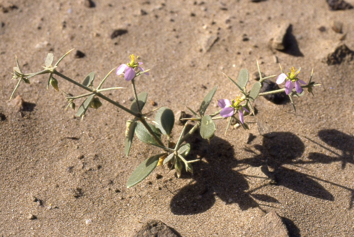 Fagonia ovalifolia subsp. pakistanica. Pakistan, Baluchistan, between Panjgur and Prom